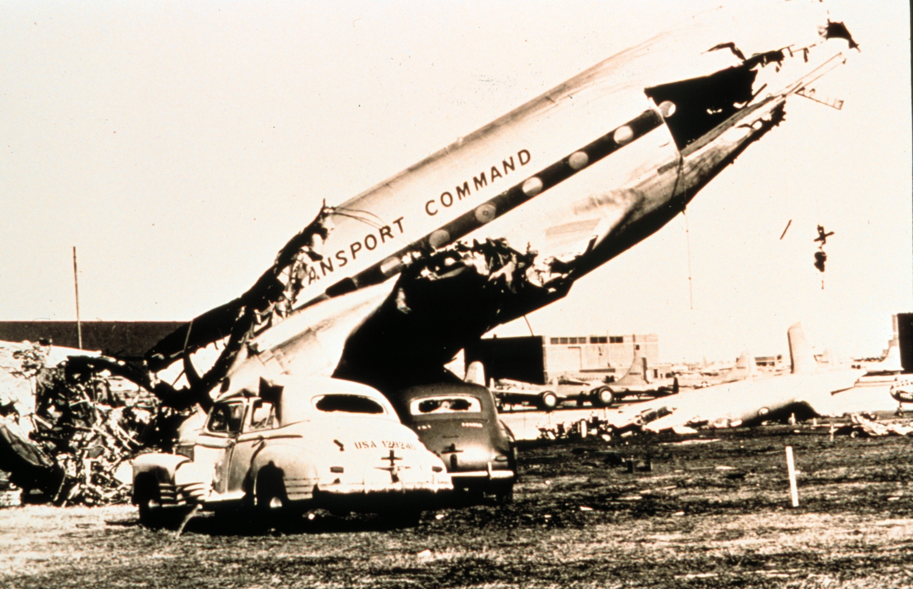 A large airplane destroyed by the second Tinker Air Force Base tornado, just 5 days after the first. This tornado was preceded by the first tornado warning ever issued.